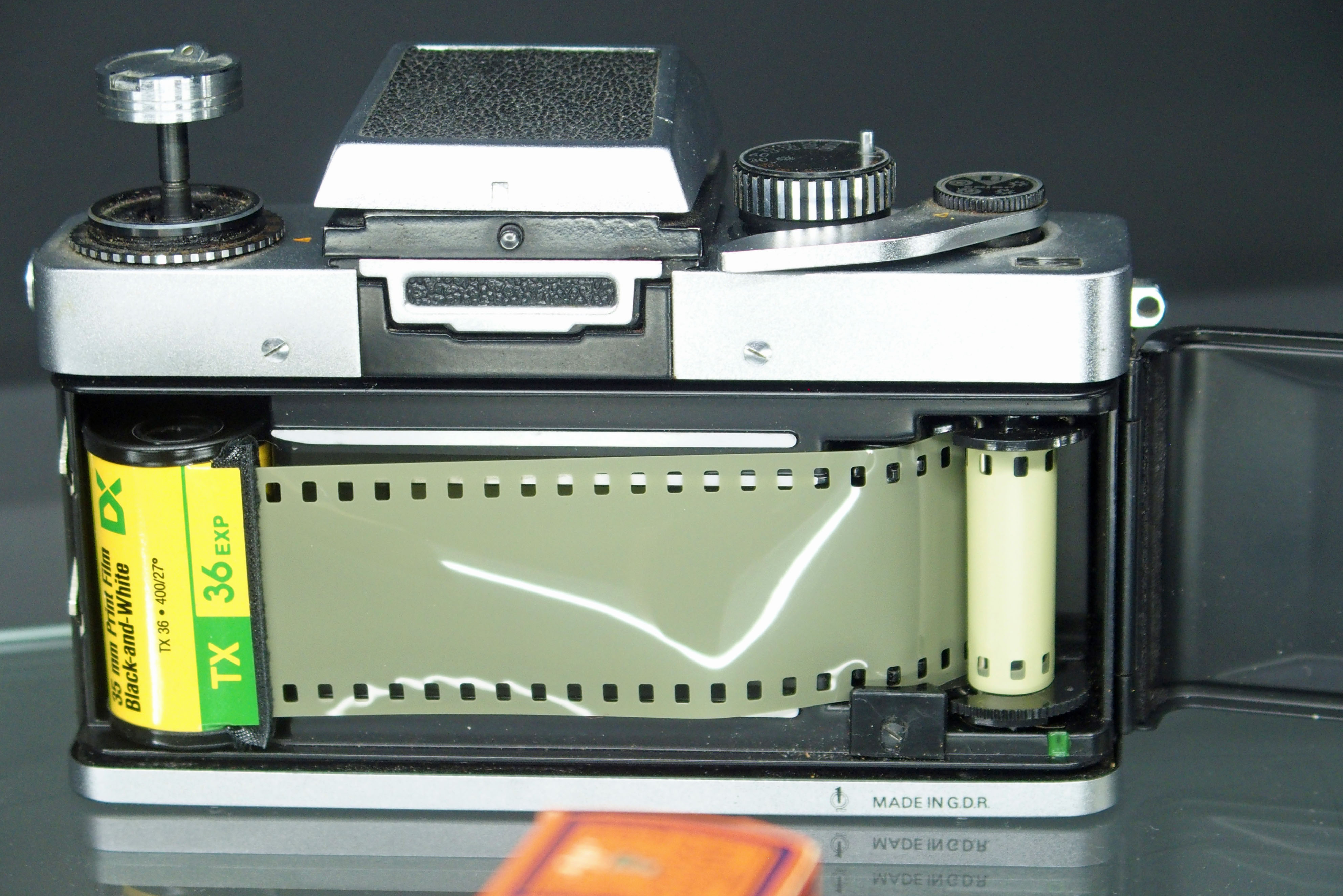 A roll of 135 film loaded into a camera, film door opened.